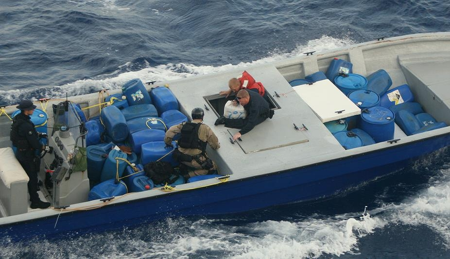 Coast Guard Law Enforcement Detachment 409 from Miami seized approximatley $22 million of cocaine from a go-fast vessel.